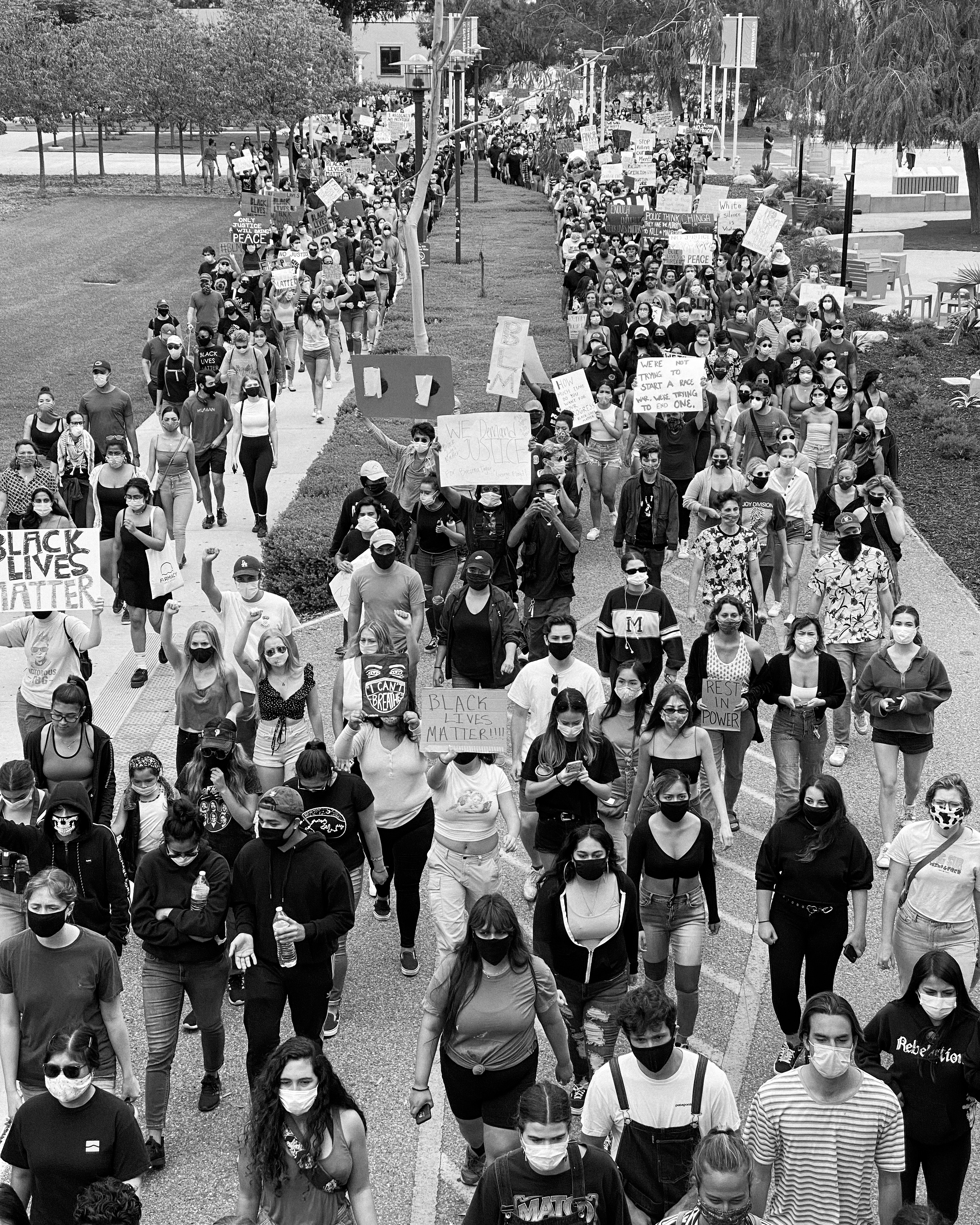 Justic for George Floyd, 30 May 2020. Members of the UCSB community marching from Storke Tower towards Isla Vista, taken from the Pardall tunnel overpass.